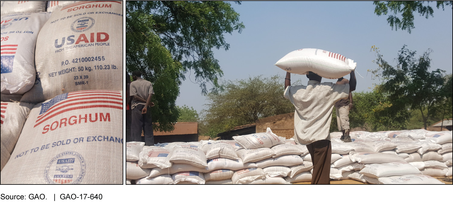 This image is excerpted from a U.S. GAO report: INTERNATIONAL FOOD ASSISTANCE: Agencies Should Ensure Timely Documentation of Required Market Analyses and Assess Local Markets for Program Effects